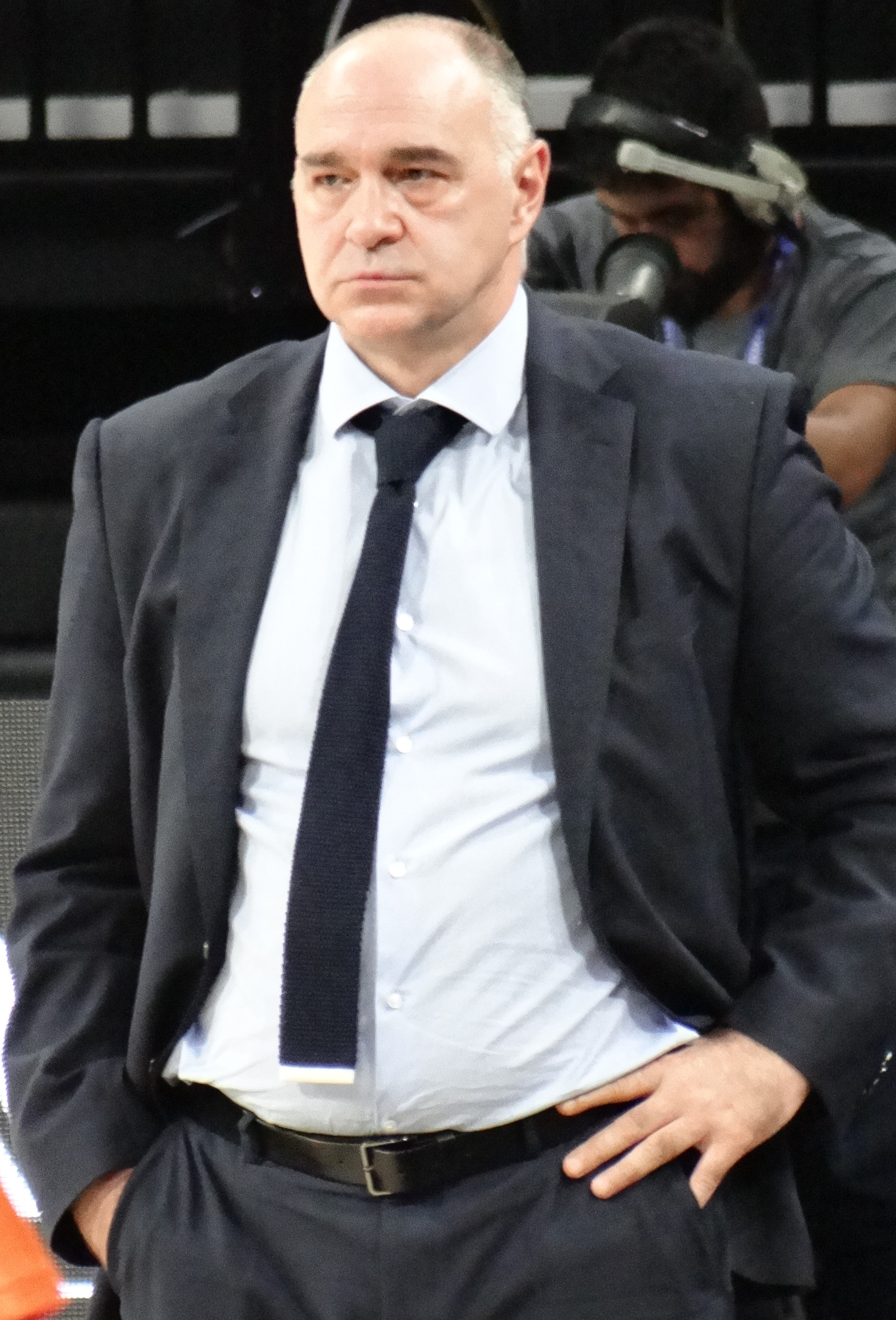 Pablo Laso Real Madrid Baloncesto Euroleague 20171012